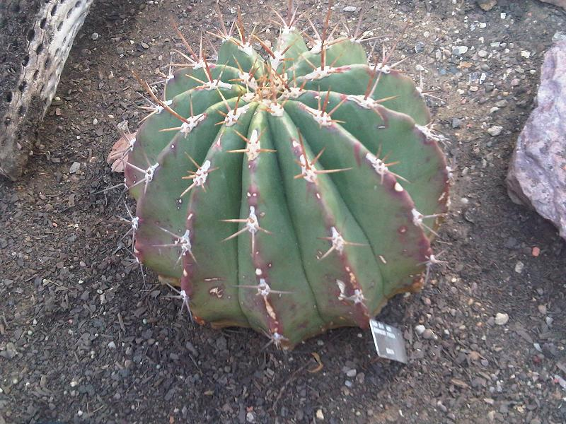 Ferocactus pottsii at Kew Gardens, England.